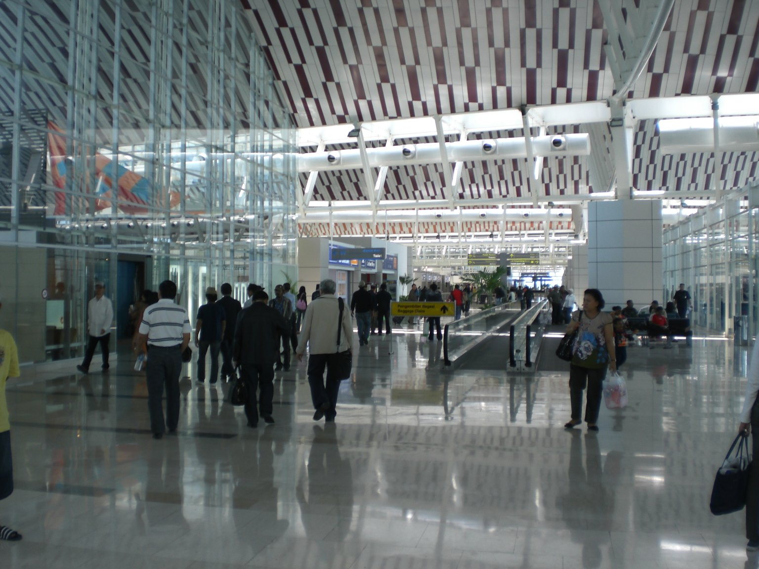 New Terminal / Makassar Airport / Indonesia / Sulawesi